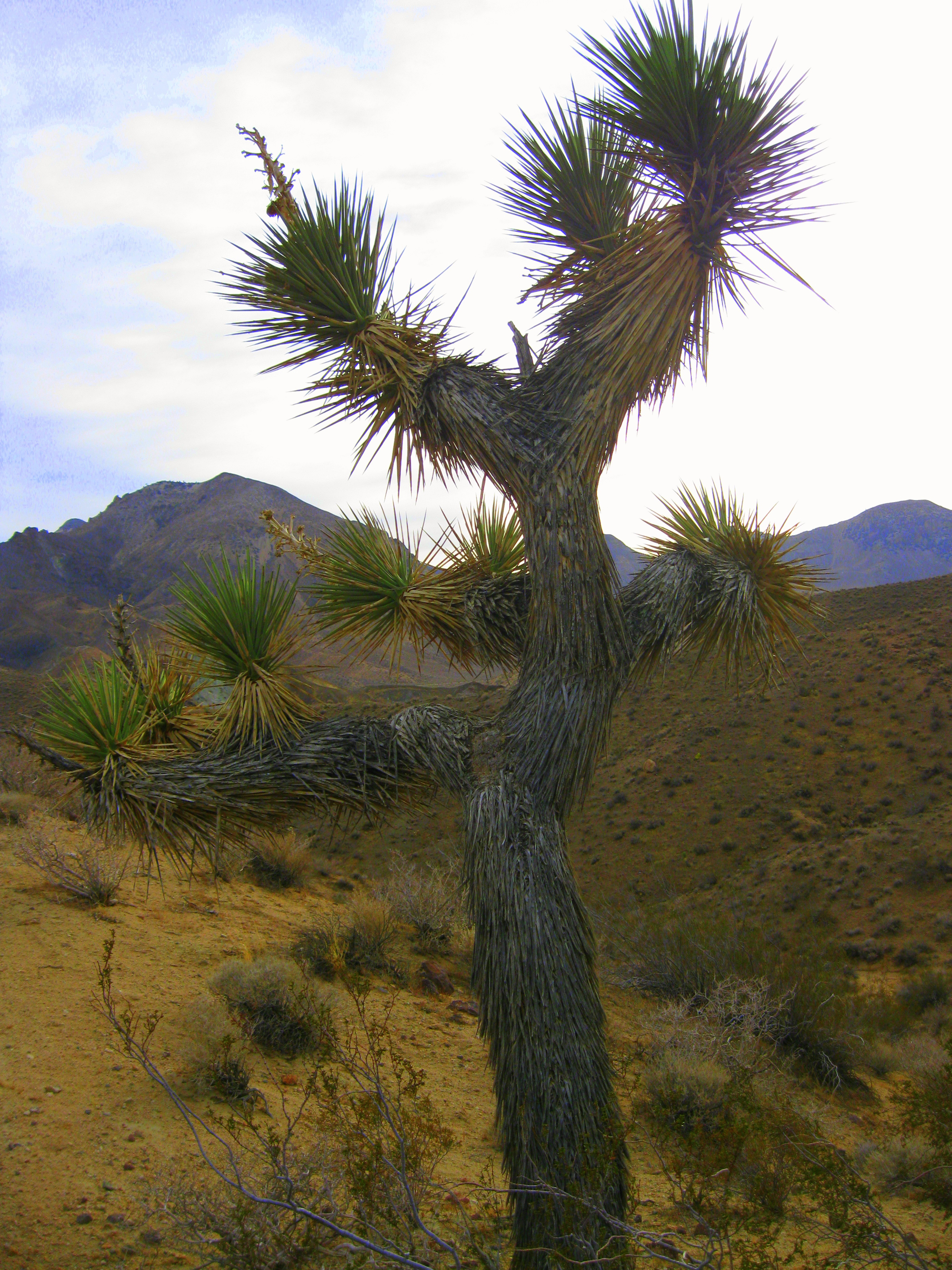 a Yucca brevifolia—Joshua tree at Jawbone Canyon Jawbone Canyon, western Mojave Desert.